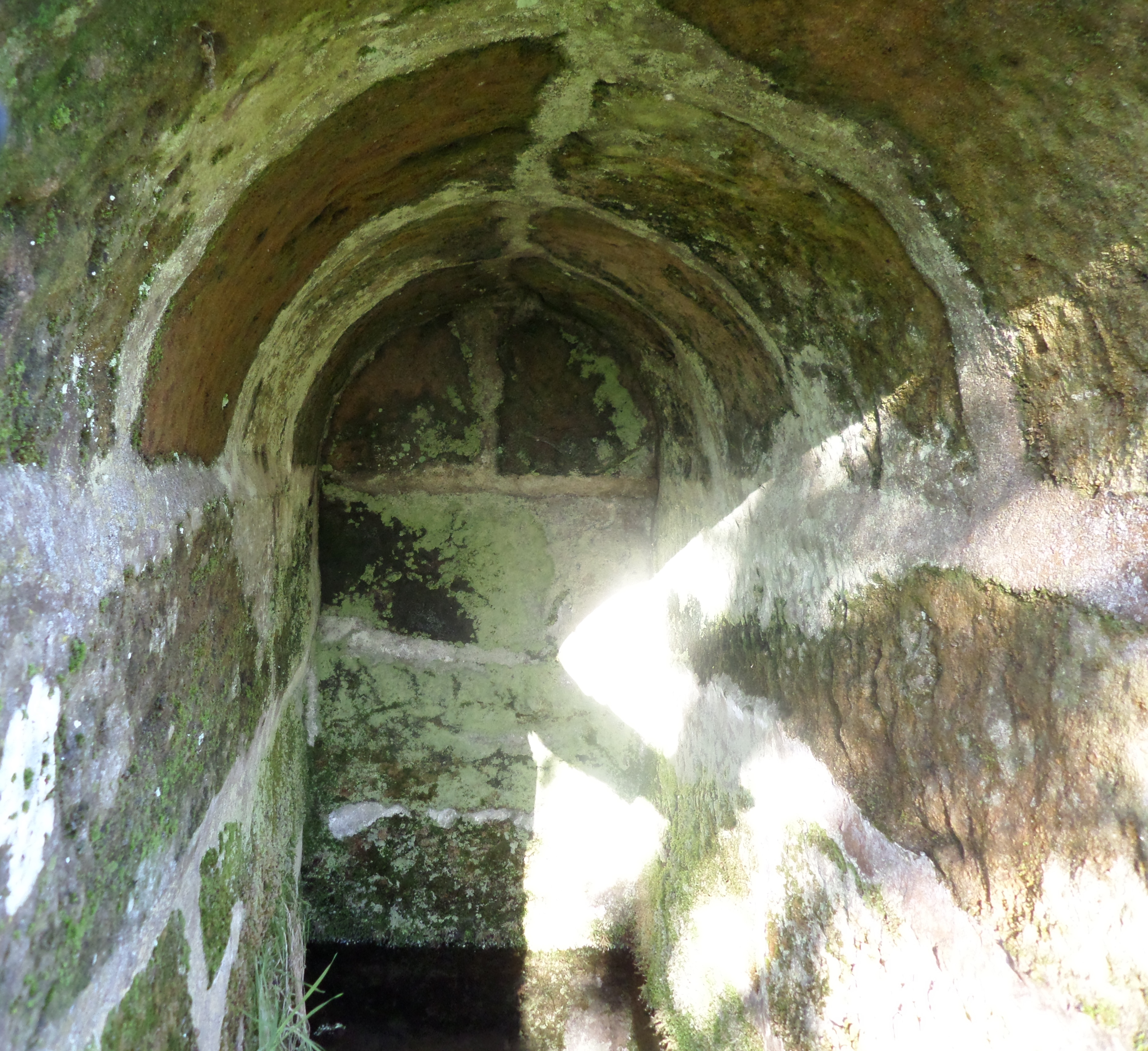 St Peter's Holy Well, Houston, Renfrewshire - detail of the internal stonework of this rare covered well. A spring flows from it and a pre-christian origin is likely.